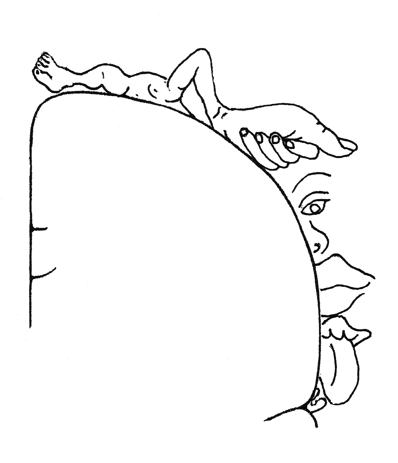 Author: btarski Date: 6/23/06